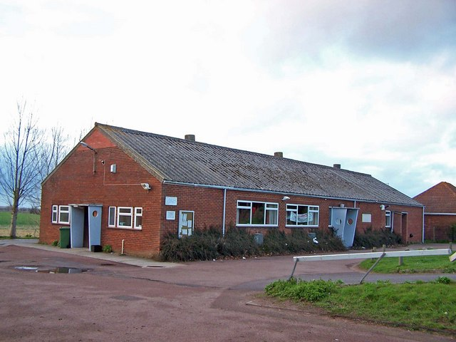 Bobbing Village Hall Not the smartest of buildings, though quite well used. The porches give it a 1950's look, while the corrugated asbestos roof is distinctly agricultural!